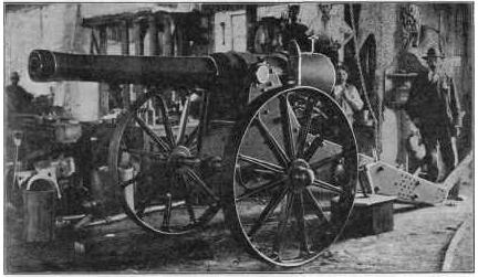 Long Cecil gun manufactured in the workshops of De Beers during the siege of Kimberley.